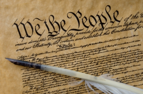 This image describes the starting part of the preamble of a constitution